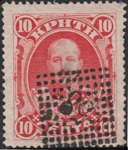 Definitive stamp of 10 lepta of Cretan State (1900 issue) cancelled with rural diamond postmark "58" (Rethimnon).